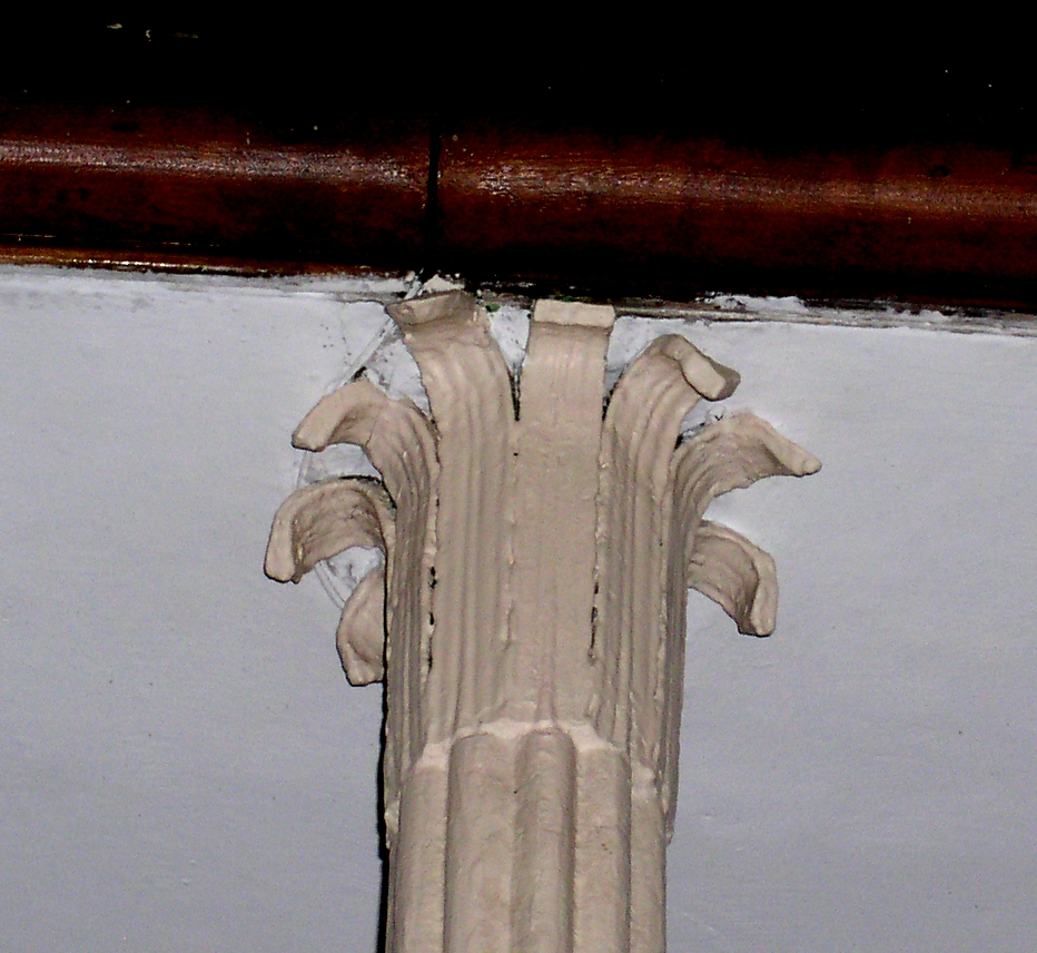 One of the capitals on the cast iron columns supporting the gallery of St John the Evangelist's parish church, Chichester, West Sussex